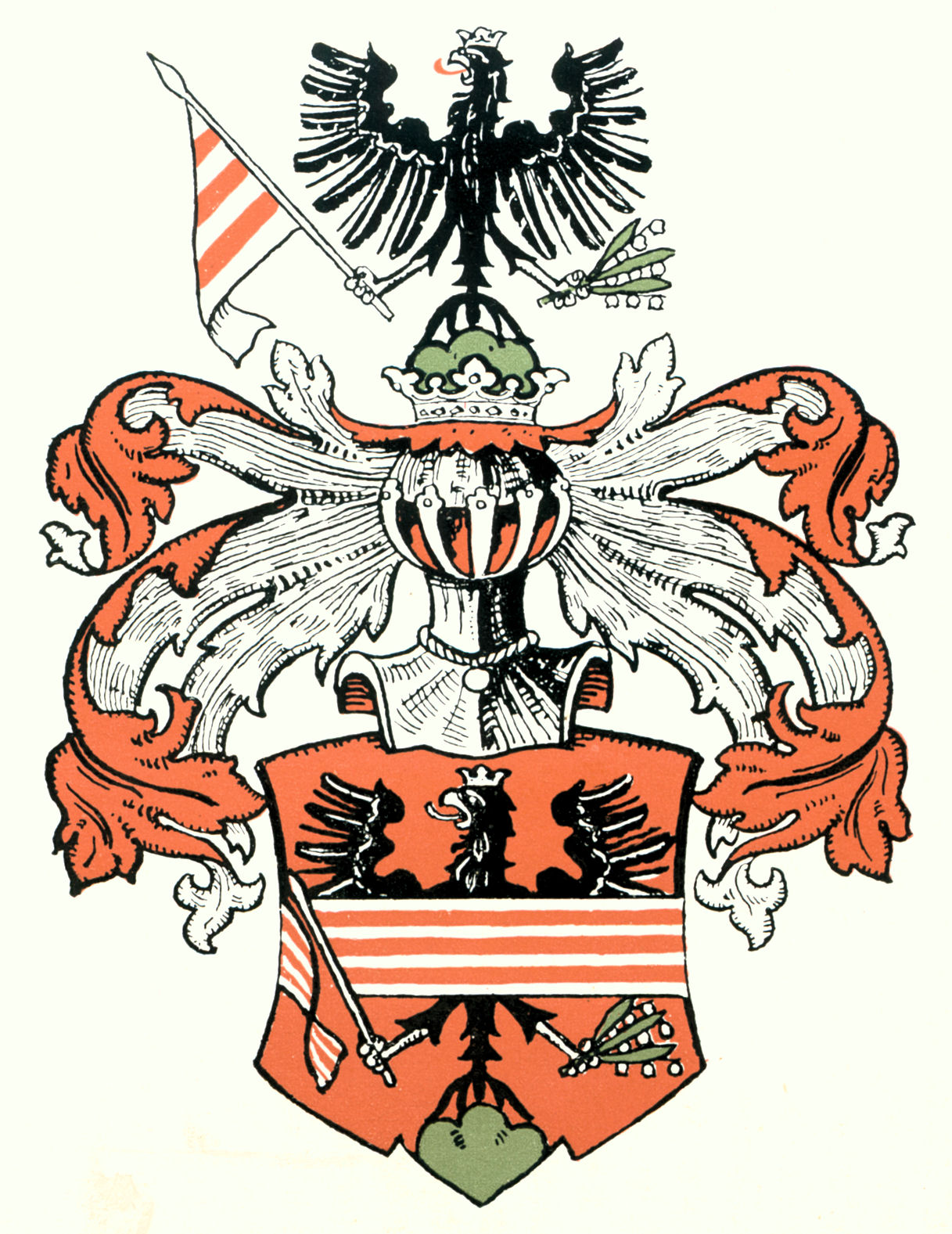 Coat of arms of baron Fahnenberg according to the nobility certificate of 27 February 1713